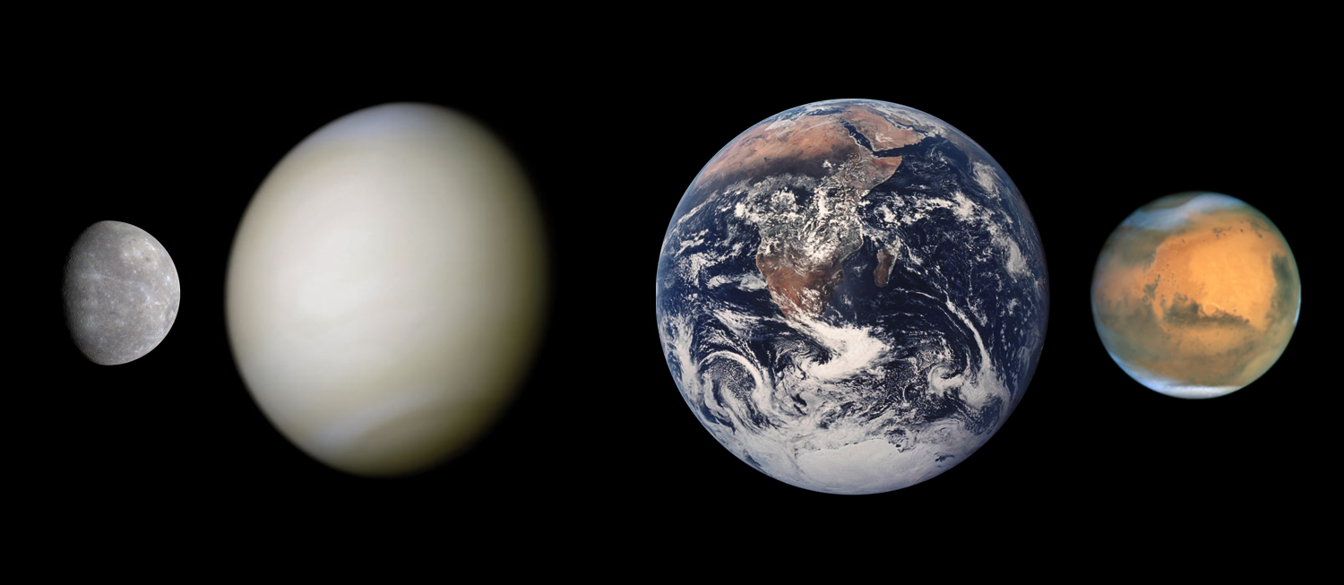 Size comparison of the four terrestrial planets (Mercury, Venus, Earth, Mars) in true color.